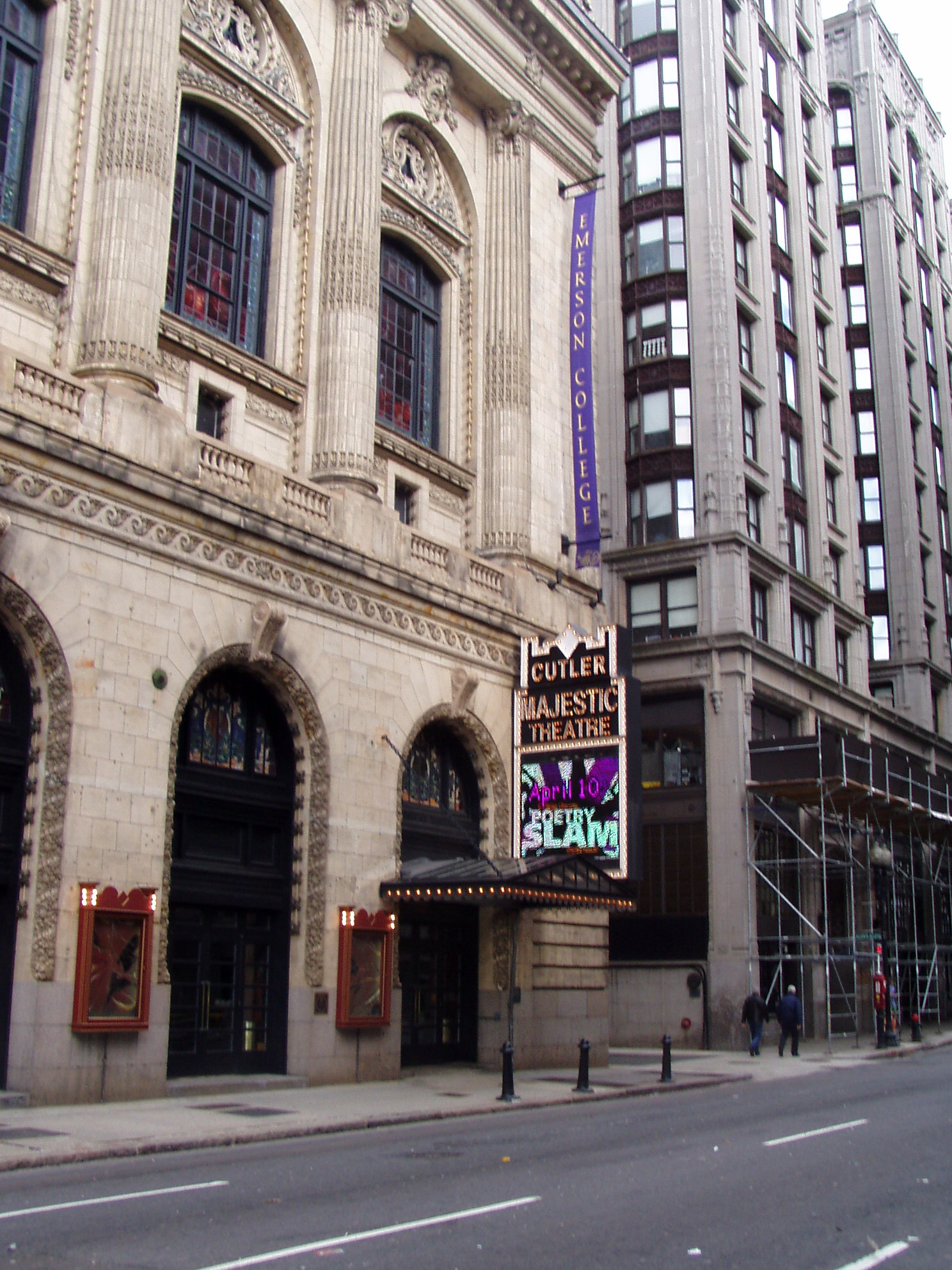 Emerson College Cutler Majestic Theatre in Boston, MA